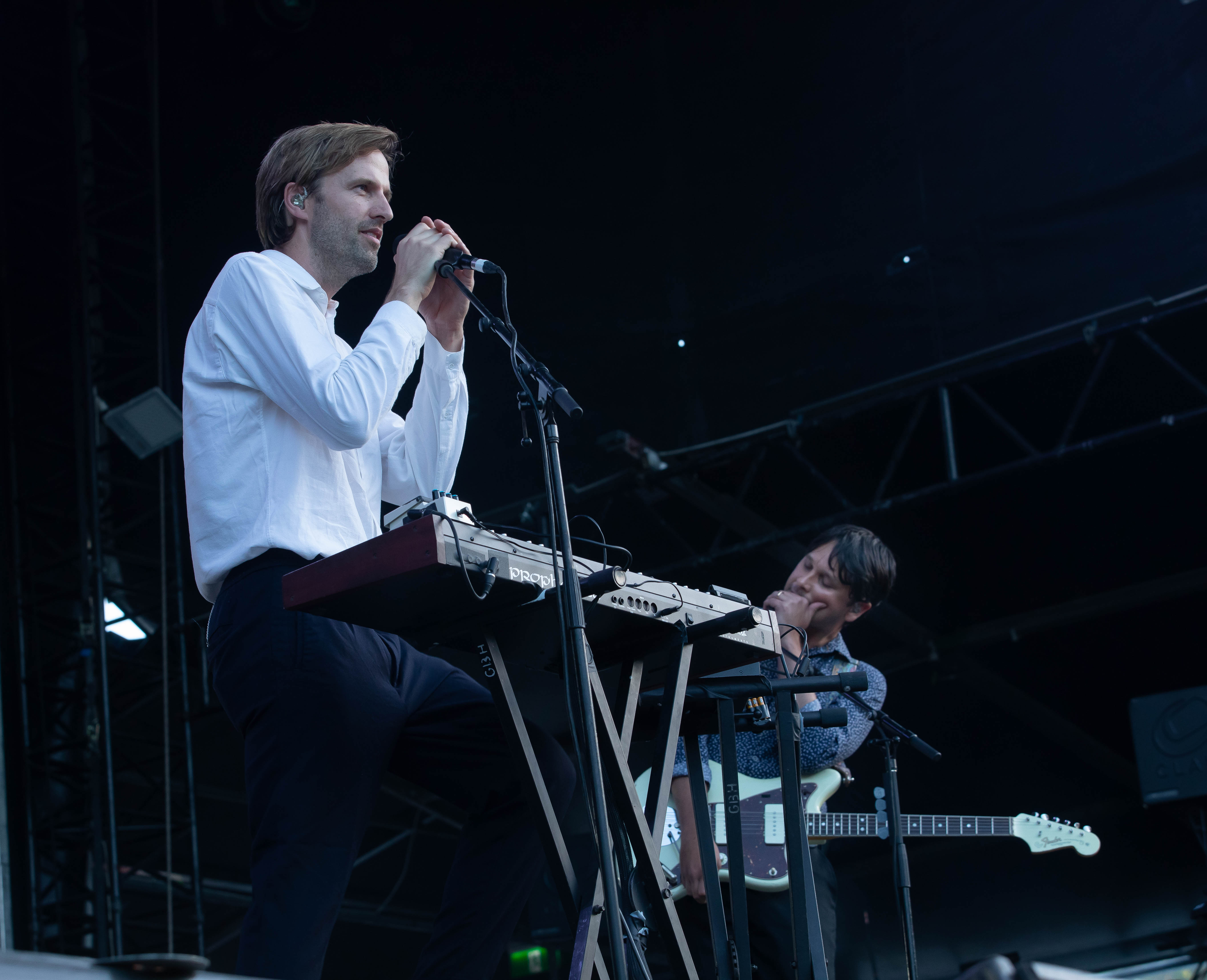 Cut Copy